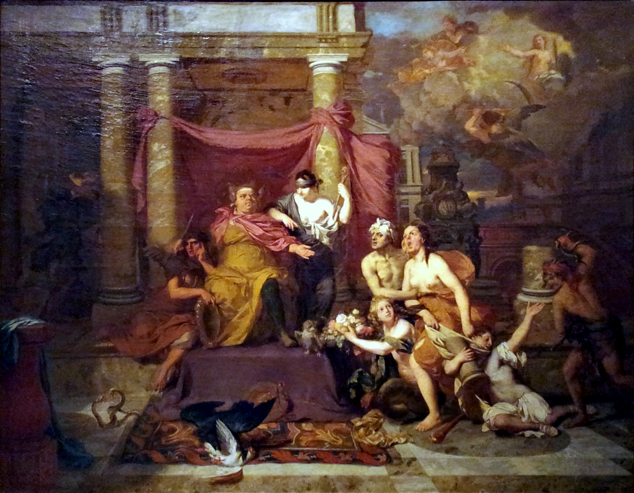 Gérard de Lairesse, The judgement of foolishness (ca 1685-'90), Musée des Beaux-Arts de Liège, Belgium.